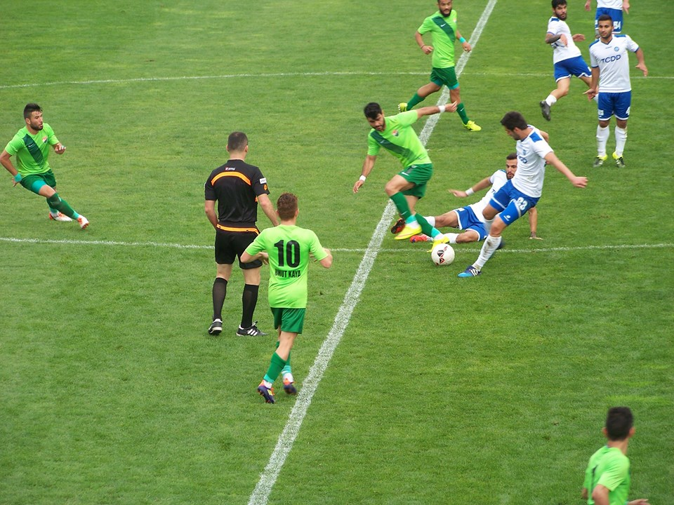 Turkish 2. Lig (2nd League) Ankara Demirspor 2-1 Kocaeli Birlikspor match (2015-2016 season)